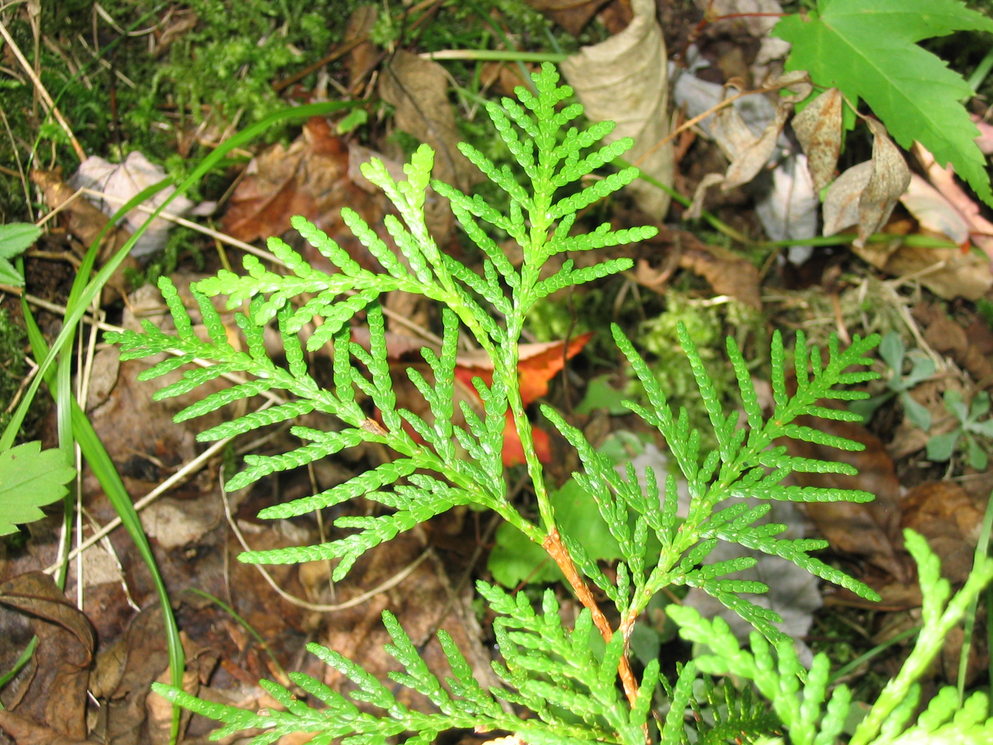 Thuja occidentalis foliage, Superior National Forest, Minnesota.